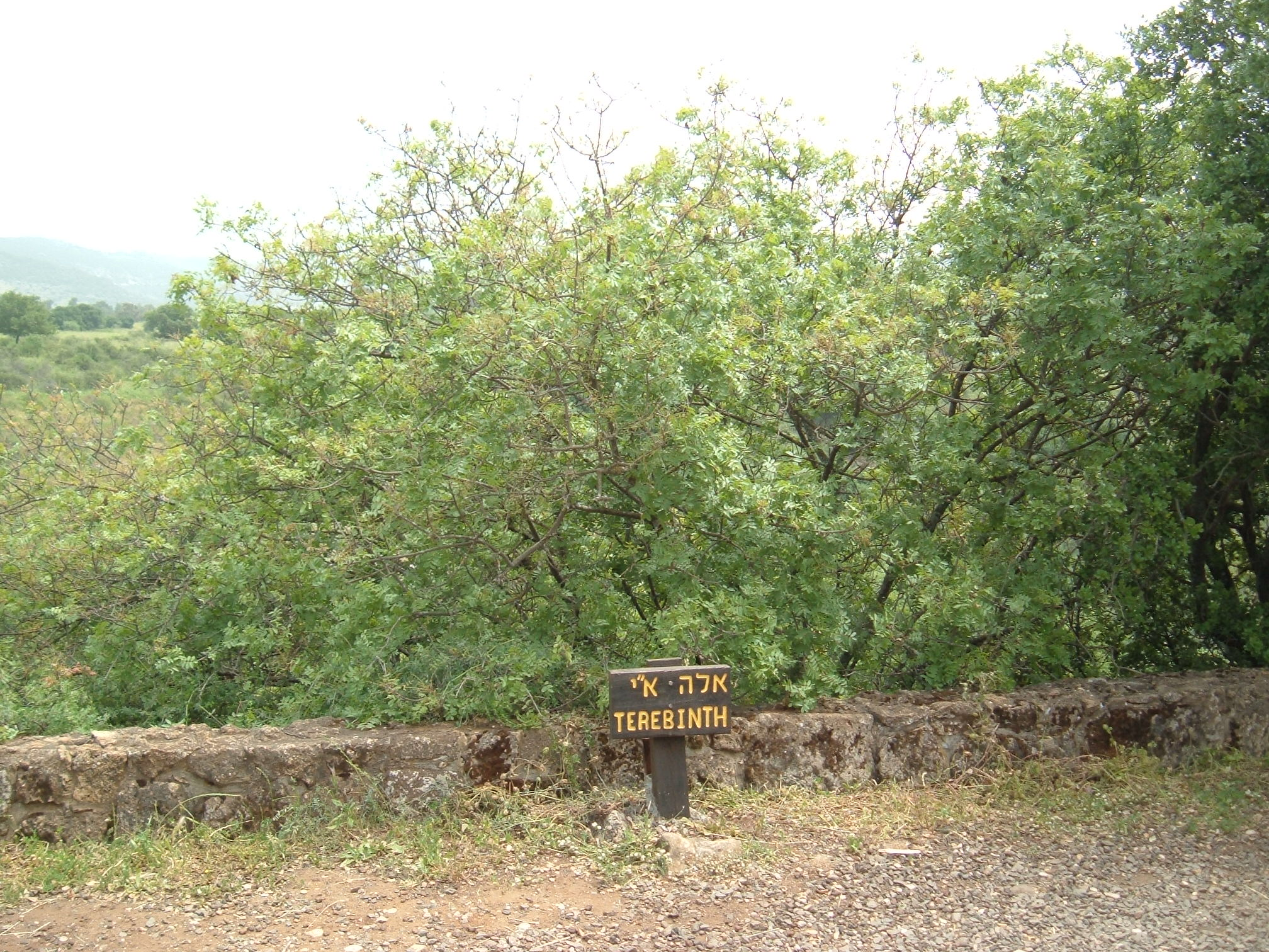 Terebinth - Pistacia terebinthus subsp. palaestina - אלה ארץ ישראלית